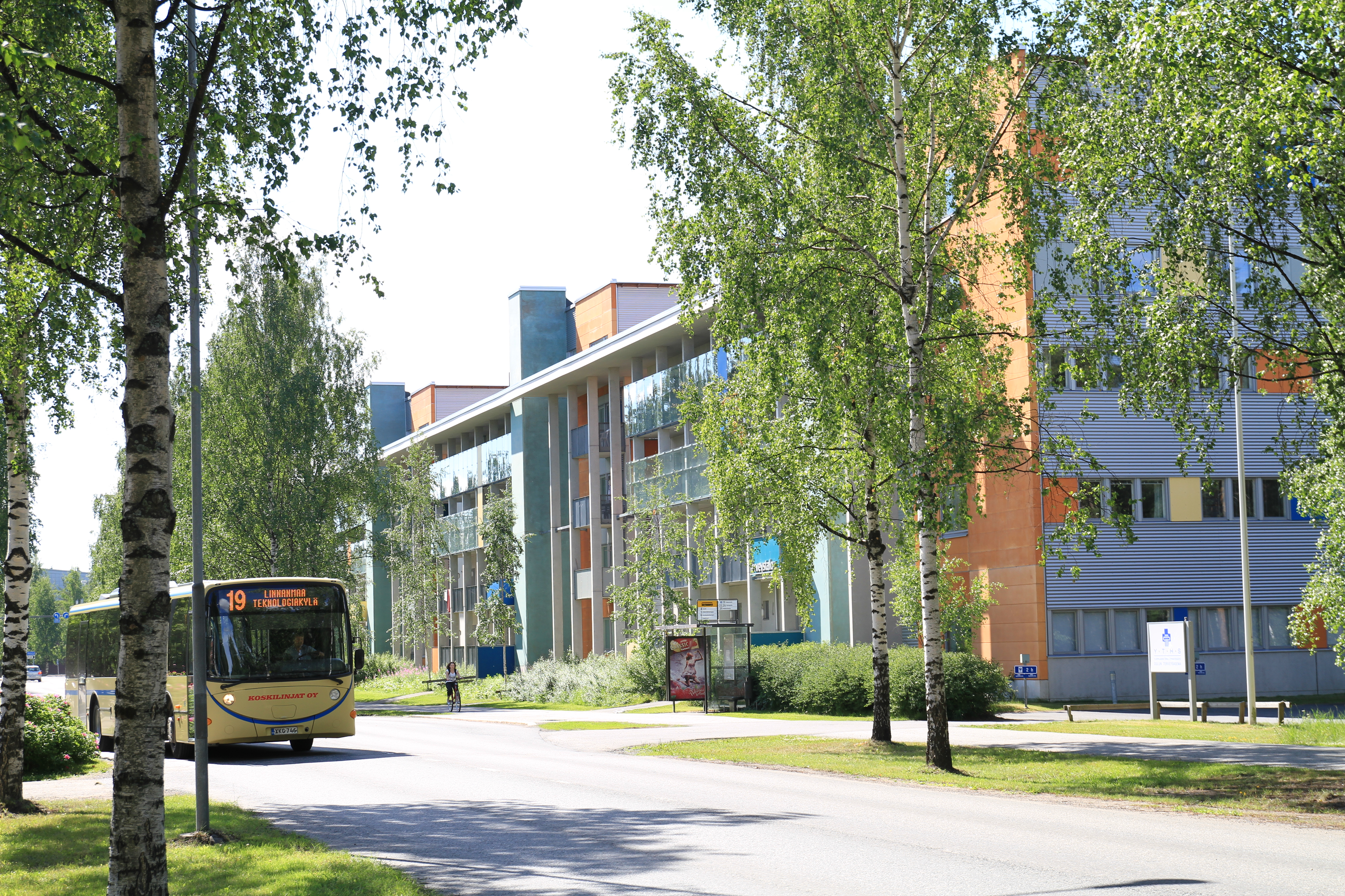 Yliopistokatu street in Linnanmaa, Oulu summer 2010